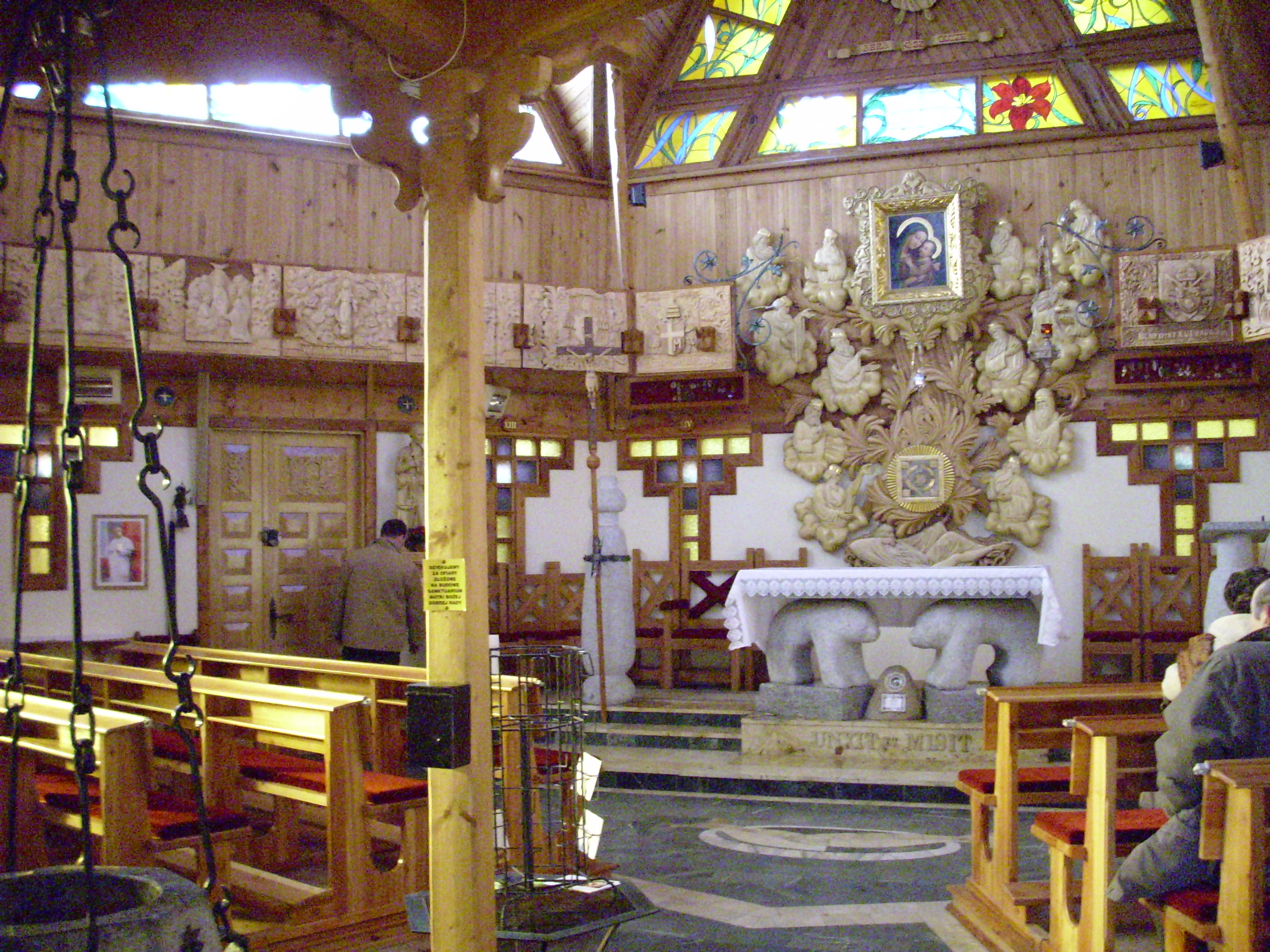 Mother's of God Good Advice sanctuary in Sulistrowiczki near Sobótka, Poland.